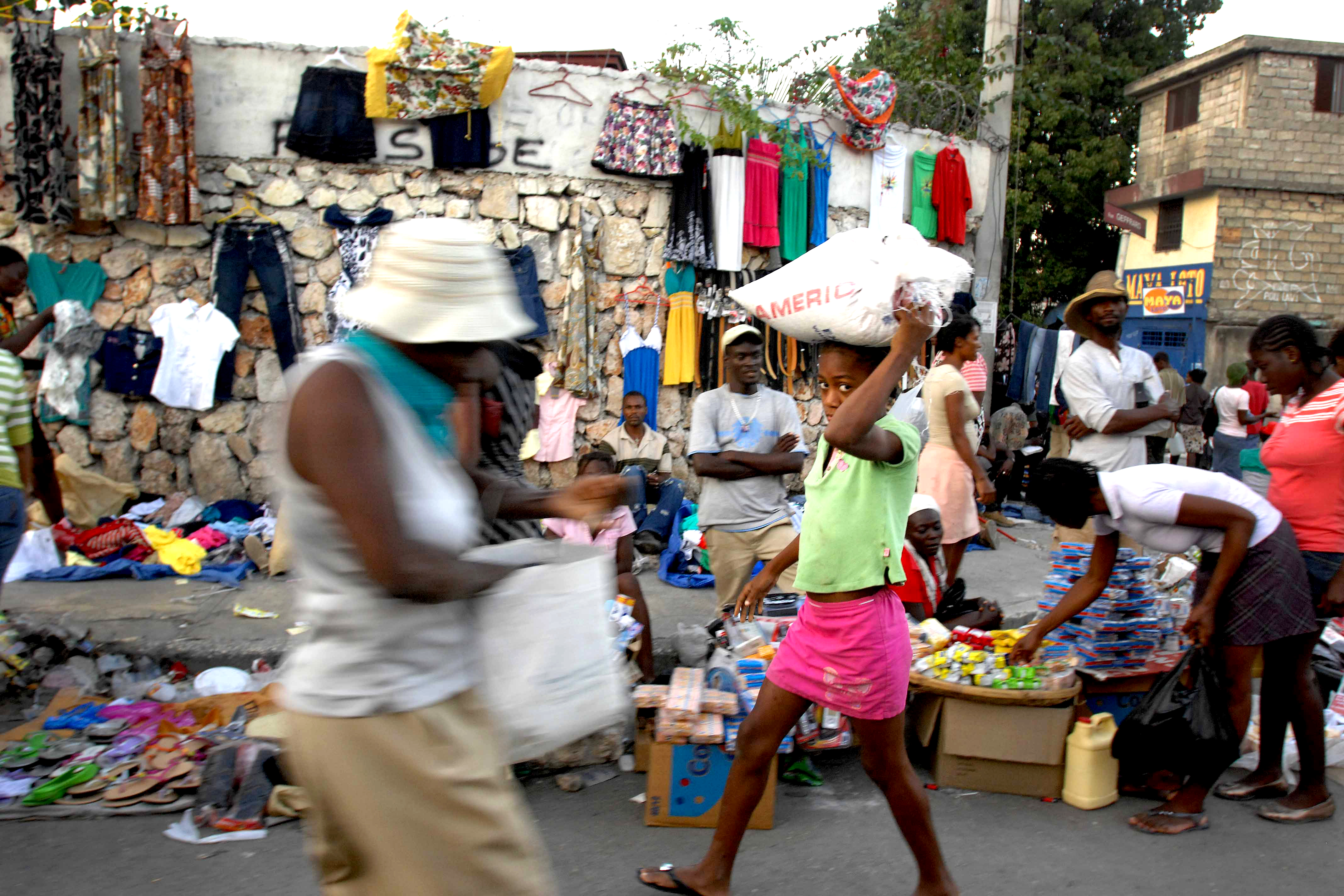 Women set up a market along the street in Port-au-Prince, Haiti, Jan. 20, 2010. VIRIN: 100120-D-1852B-1284a